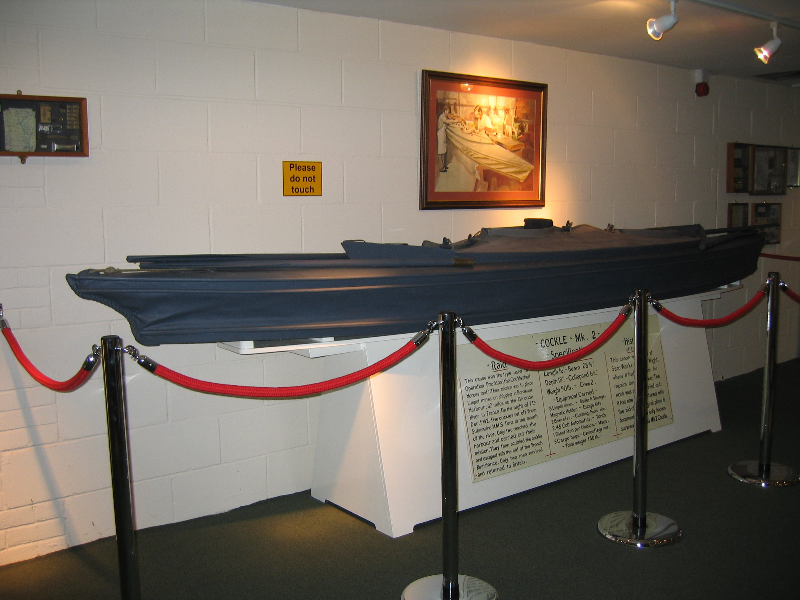 Mark 2 Cockle canoe as used in Operation Frankton identified as Cachalot